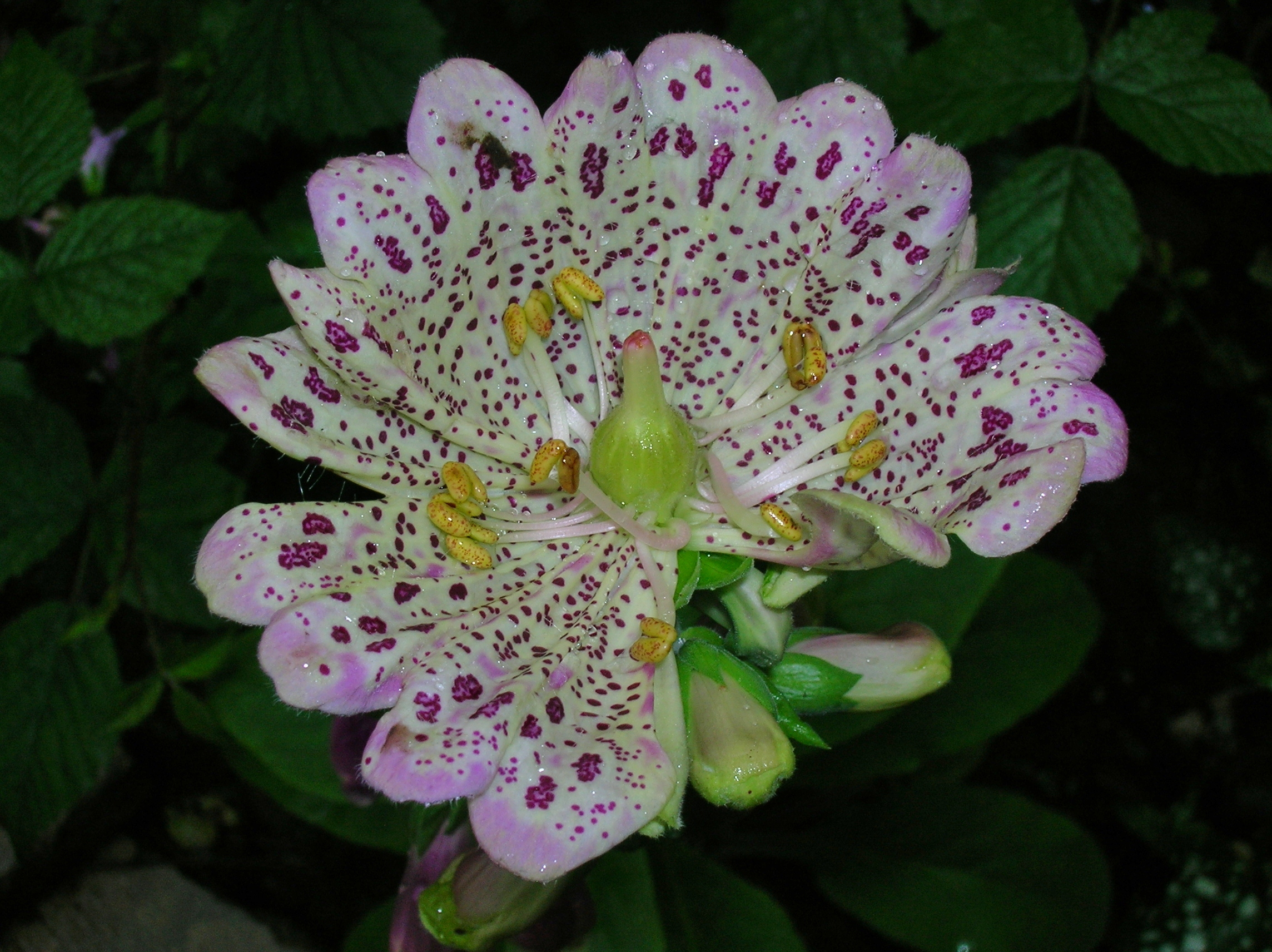 Peloric Foxglove Flower (Digitalis purpurea), Barrmill, North Ayrshire, Scotland.